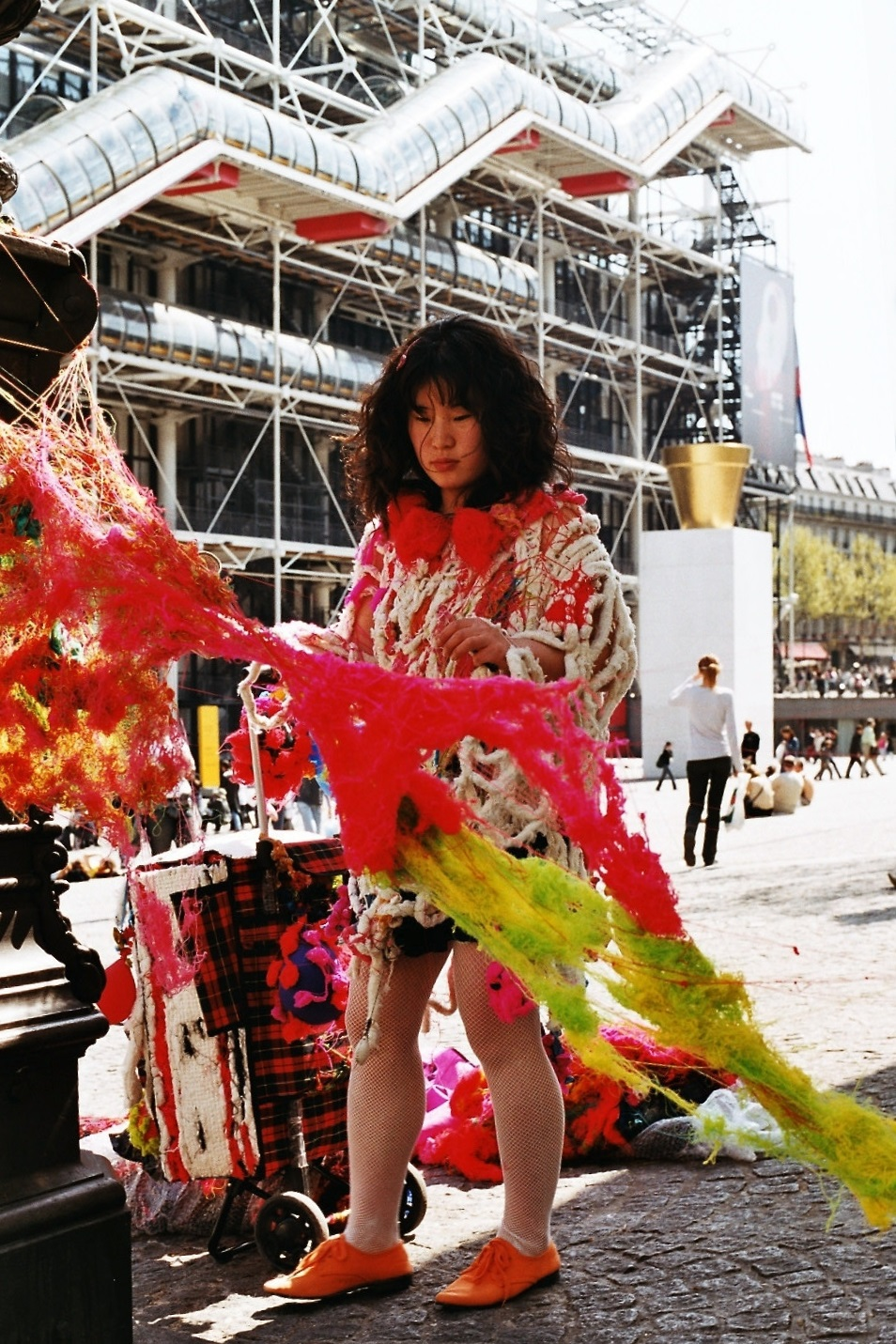 Juggler in Paris at the Centre Georges Pompidou in preparation for a presentation. April 2004, self-photographed, GNU FDL